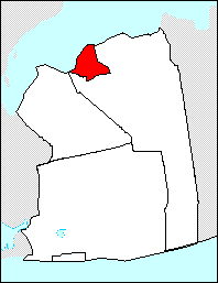 Created by myself using a map of the Census Bureau (work of Frederl government employee, no copyrights).